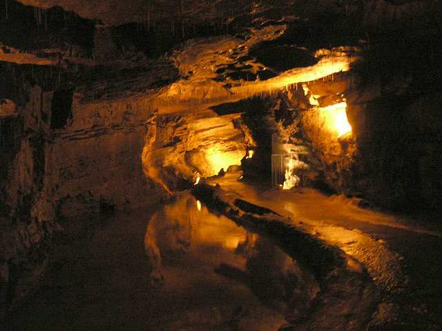 Cathedral Cave Cathedral Cave, one of Dan-yr-Ogof's three show caves.